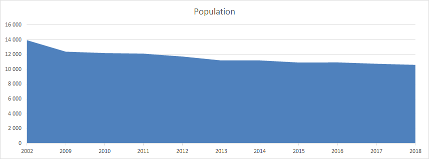 Quantity of people in Gordeyevsky district